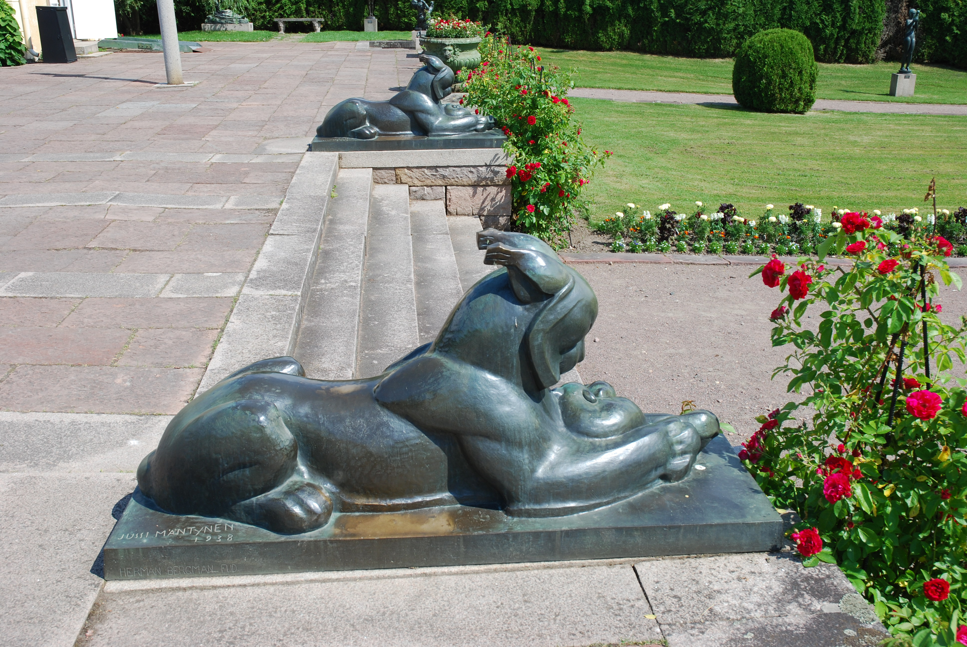 Jussi Mäntenen´s Modersstolthet (Mother´s pride, 1938), bronze, Rottneros Sculpture Park in Sweden